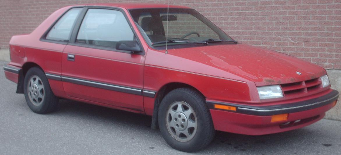 1990-1994 Dodge Shadow photographed in Montreal, Quebec, Canada.